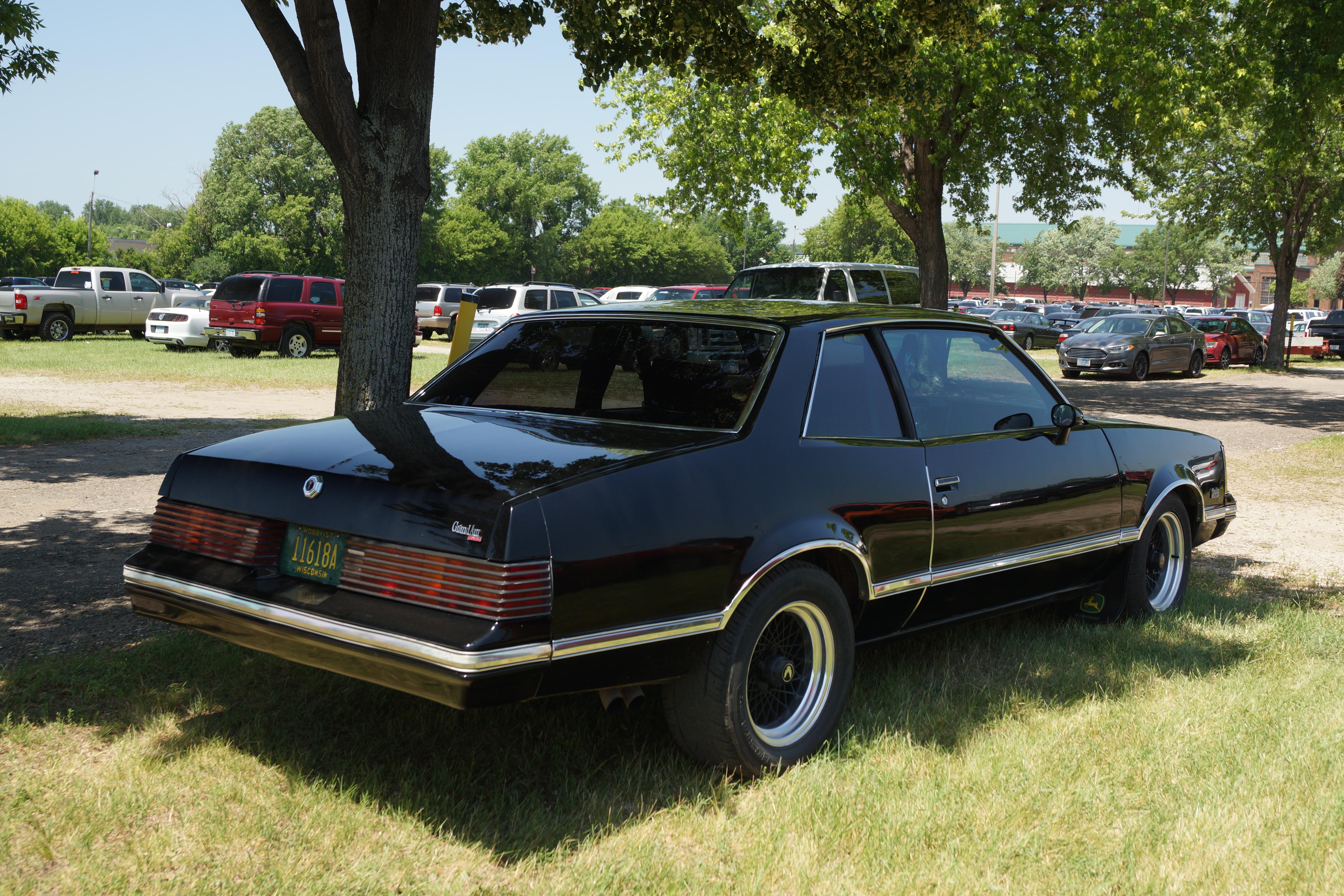 Minnesota Street Rod Association (MSRA) “BACK TO THE 50′s” 43rd Annual Car Show June 17-19, 2016 State Fairgrounds St. Paul Minnesota Click here for more car pictures at my Flickr site. Vote for you favorite Car Show here, until July 18, 2016 Also on Tumblr